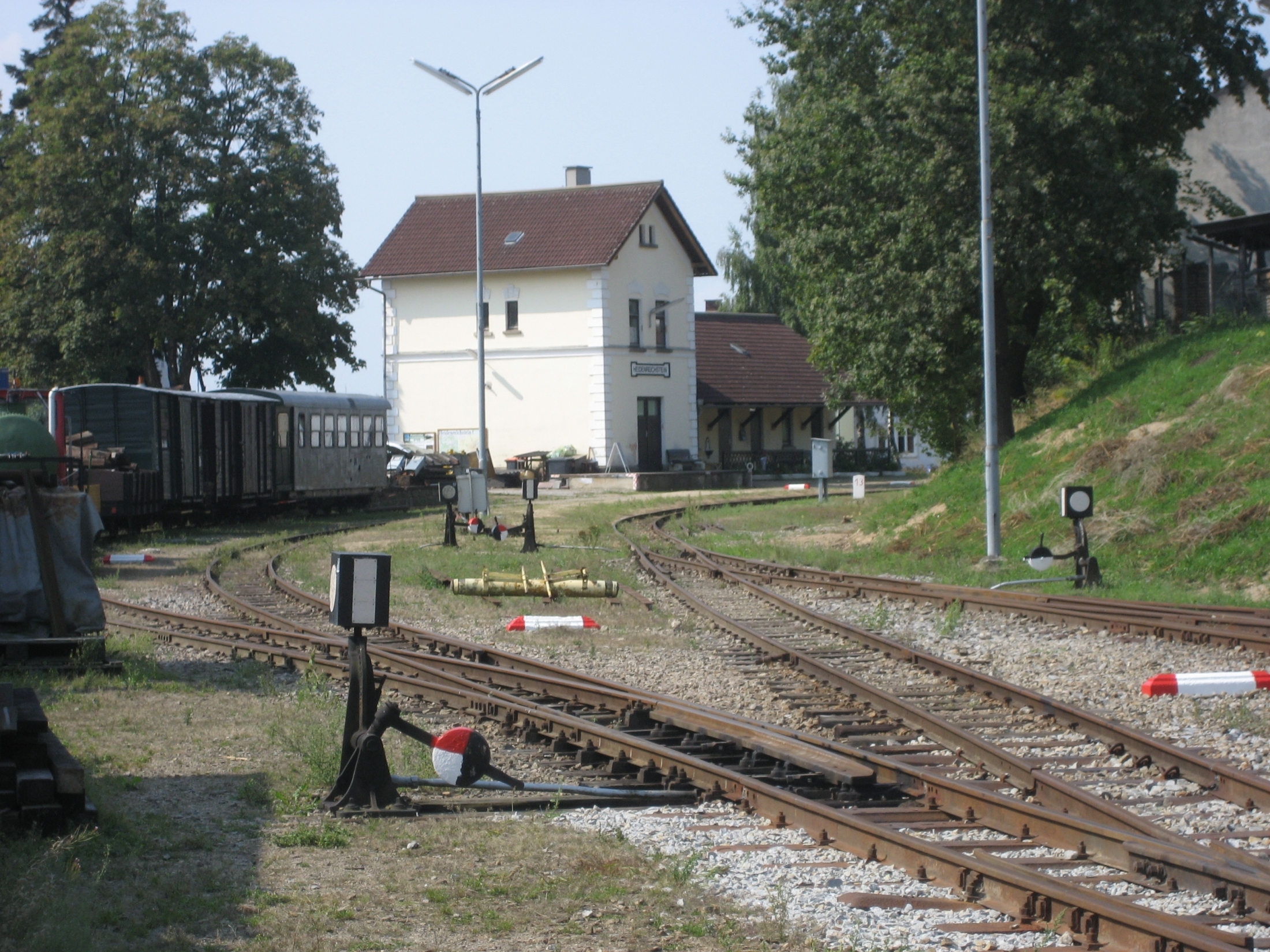 Heidenreichstein train station in Lower Austria